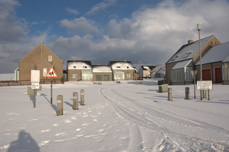 1-16 Setter's Hill Estate, Baltasound, in the snow The western houses of SHE, formerly accommodation for the mothballed RAF Saxa Vord, now owned by a Shetland housing association. Note that the grid references are accurate and the photo is in the right square; the road is slightly misplaced on the 1:50,000 map.